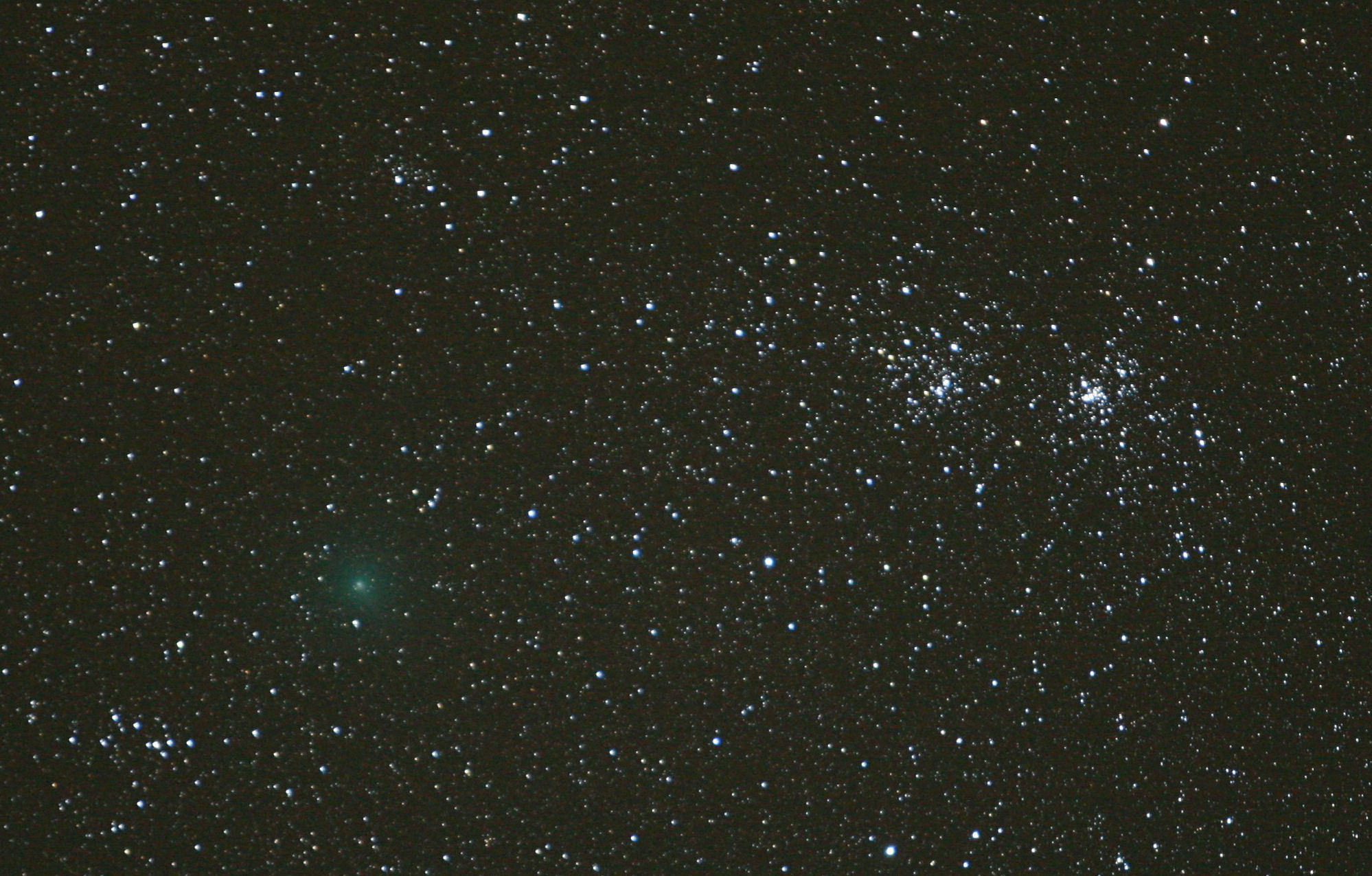 Comet 103/p Hartley (visible as green ball) and the Double Cluster in Perseus, as seen 09 OCT 2010 from Mt Laguna. Paul Martinez and Philip Brents. Canon 30D and 70-200 f/2.8 atop Meade LX-75, stack of two images at 1600 and 3200 ISO, 30 sec f/2.8.